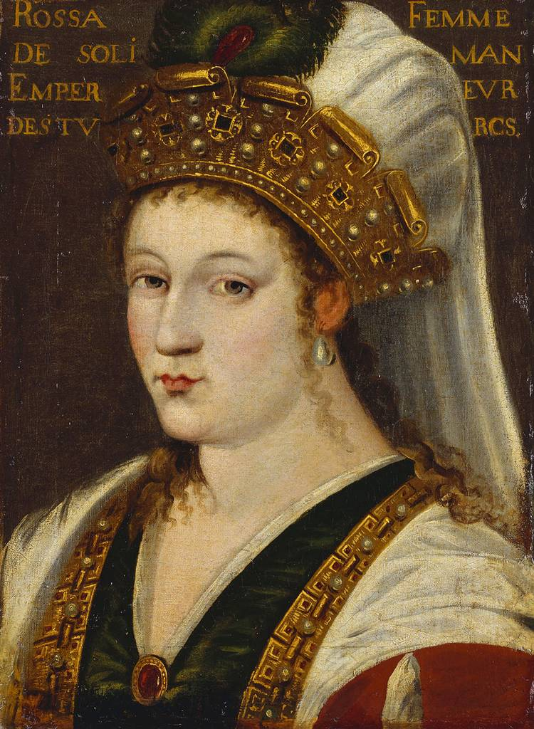 Head and shoulders portrait of a lady facing half left, in exotic dress. She is wearing an elaborate red, white and blue costume with gold-jewelled facings and a ruby brooch at her breast, a jewel encrusted gold diadem on her head with a veil at the back and an exotic feather.